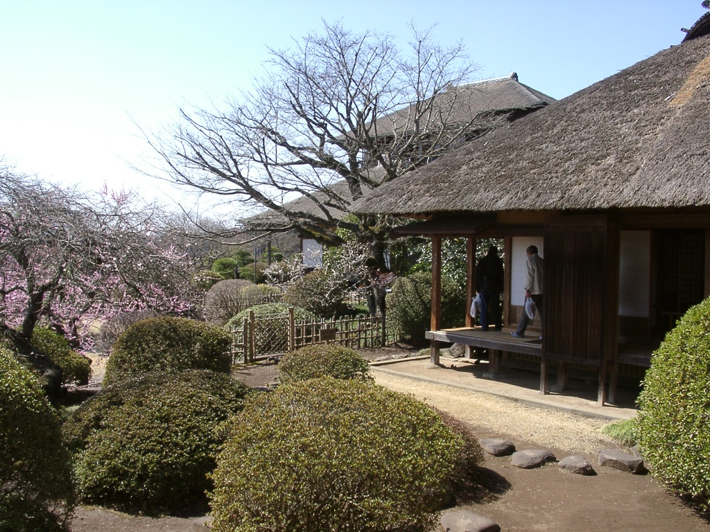 Koubuntei (Mito, Japan)